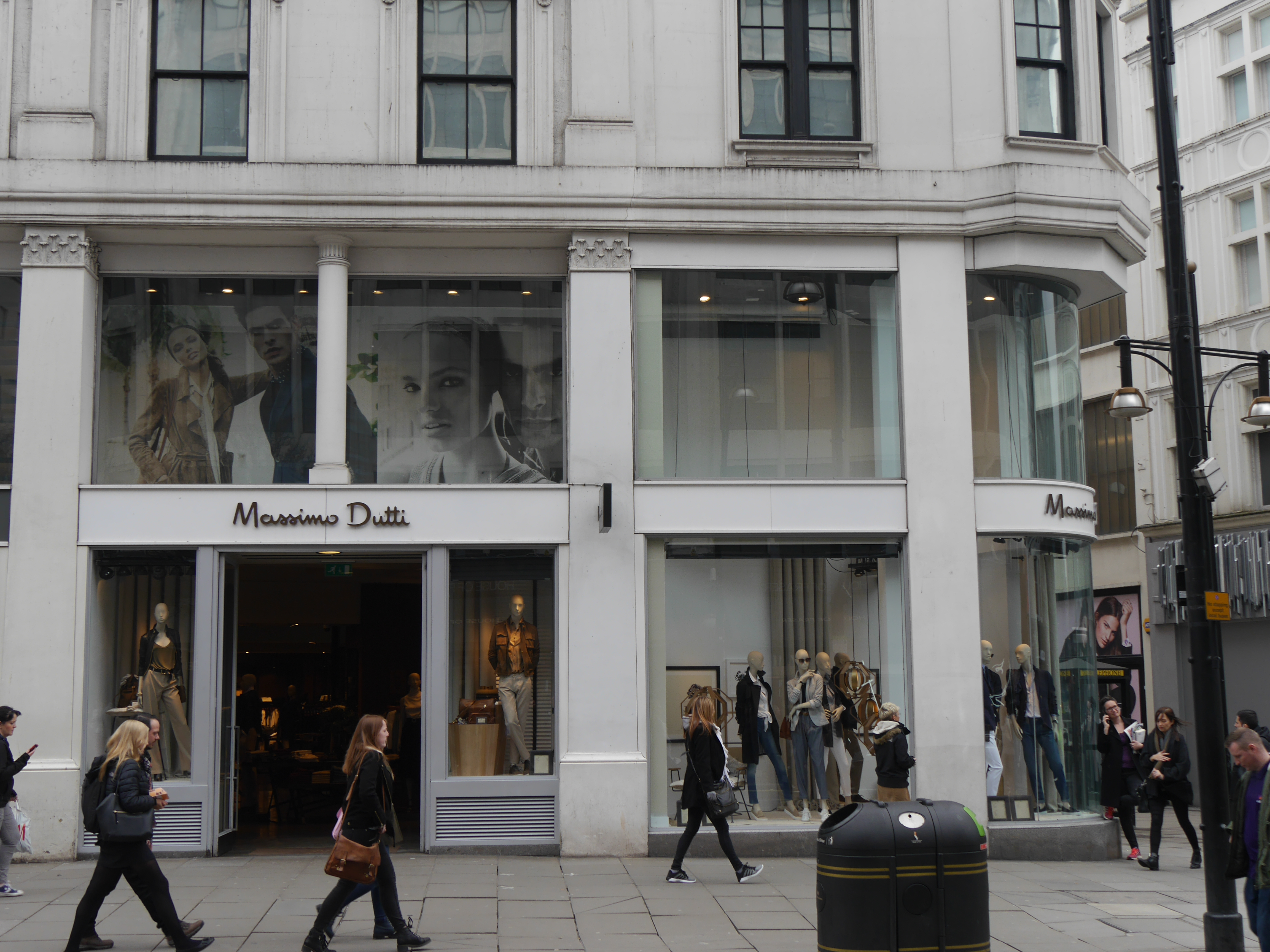 Oxford Street, London, March 2016